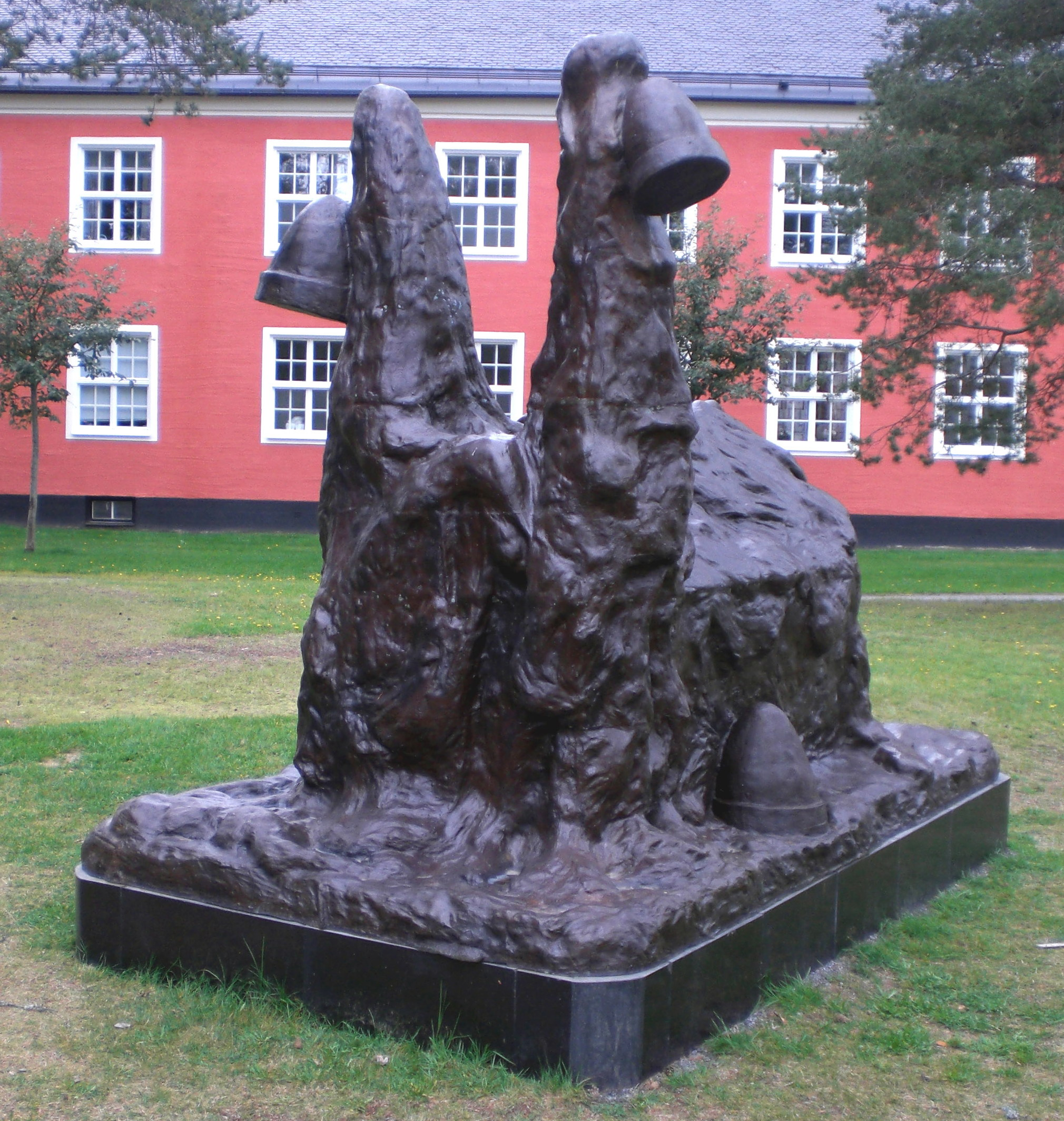 Bronze sculpture "Church" by Ernst Billgren (2000) at Umedalen Sculpture park